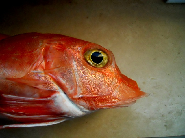 Trigla lyra collected on Grosseto fish market (Tuscany, W-Central Italy). Photo by Massimiliano Marcelli.